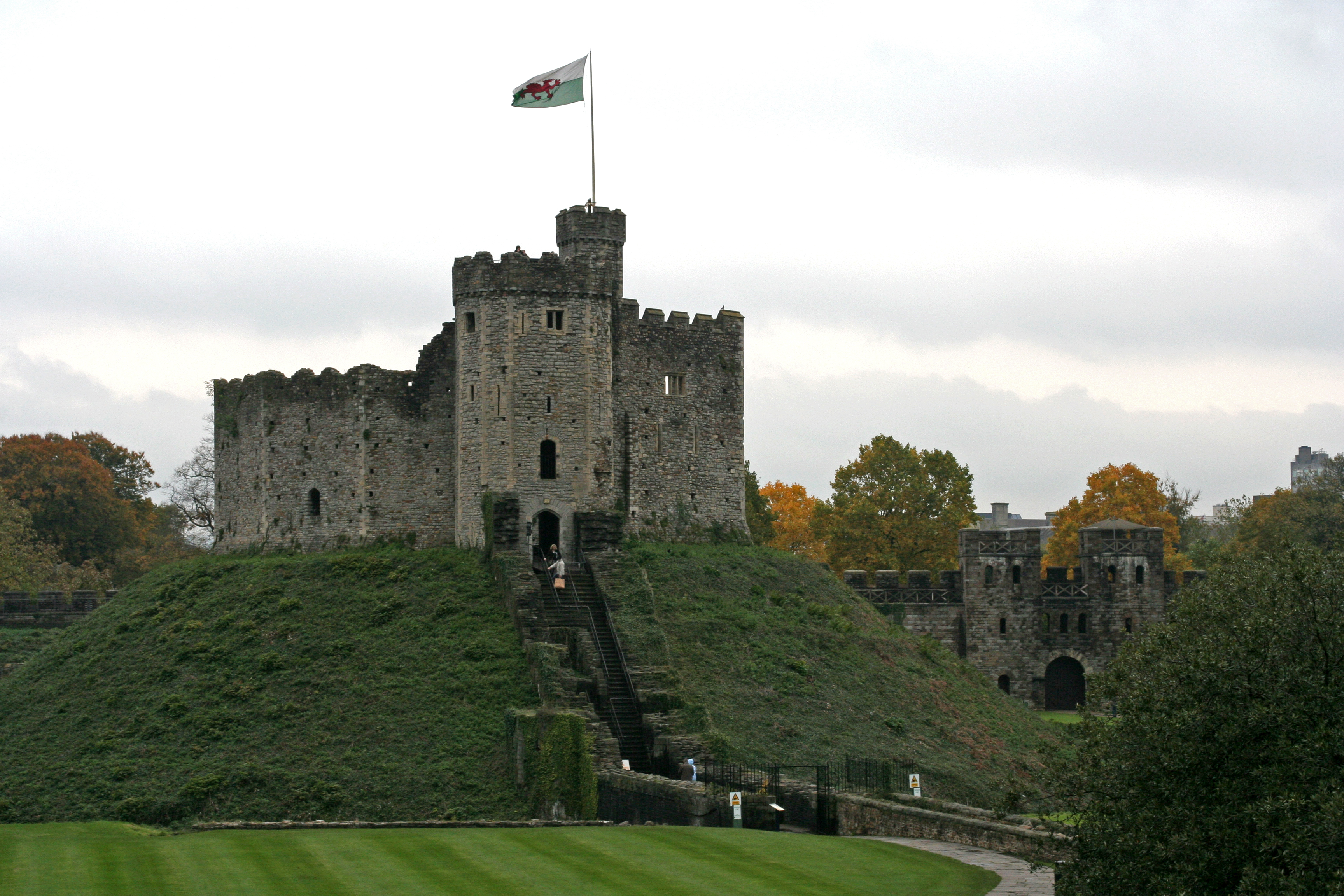 Cardiff Castle 2